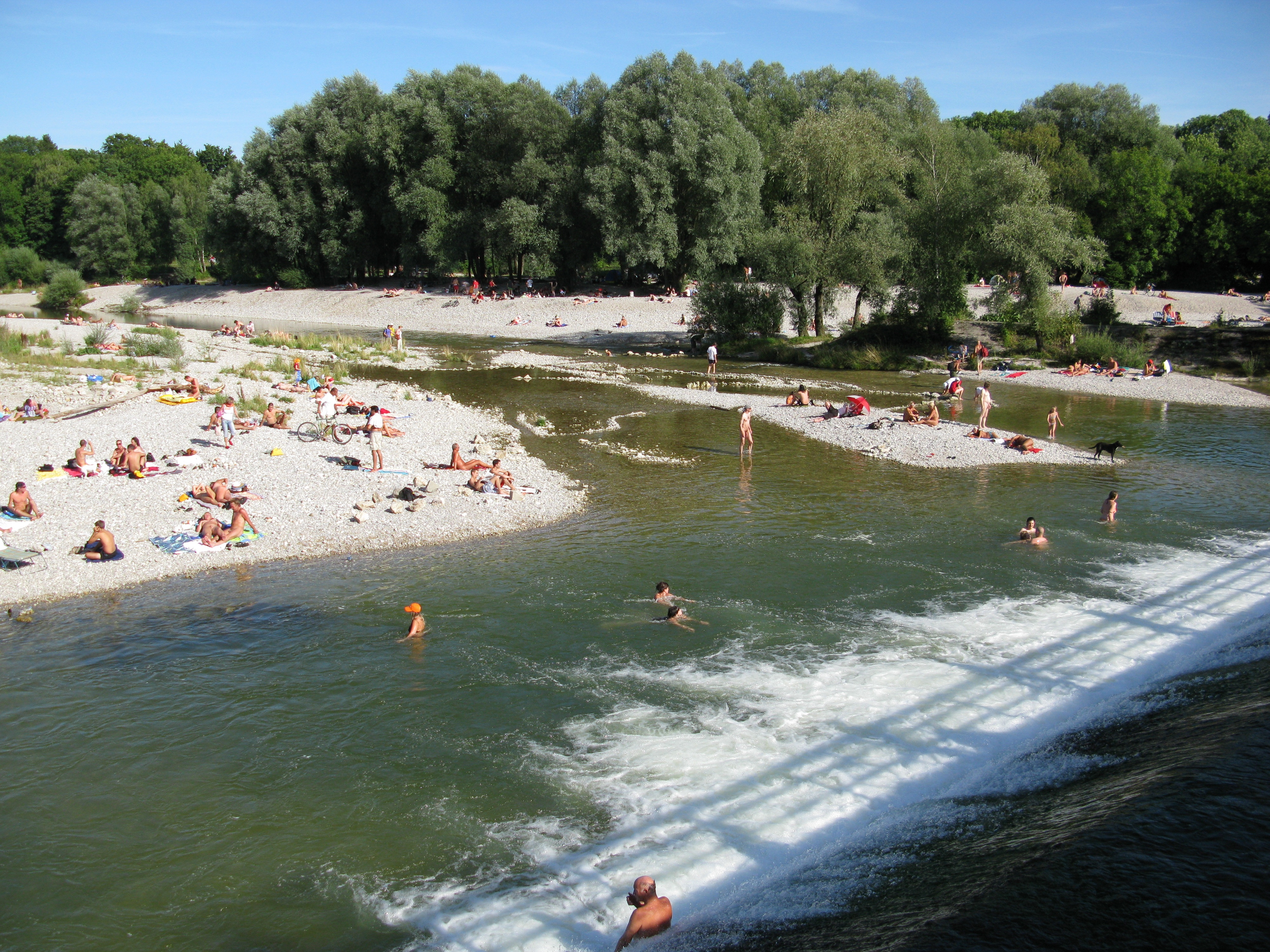 The Flaucher (river: Isar) in Munich.